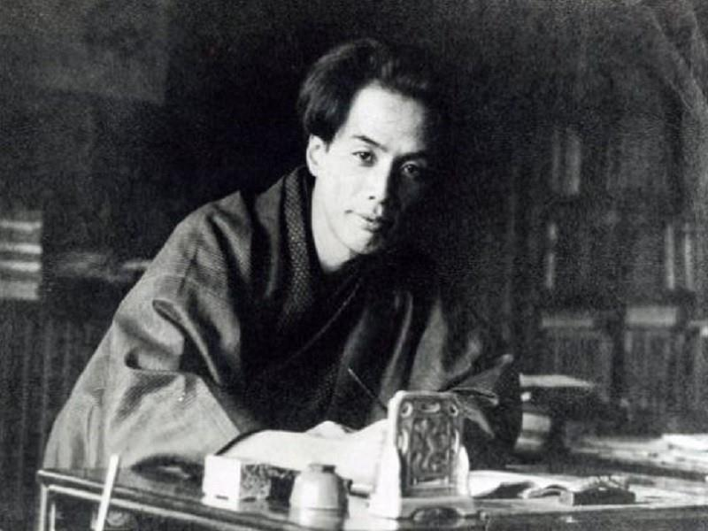 Portrait of Ryūnosuke Akutagawa